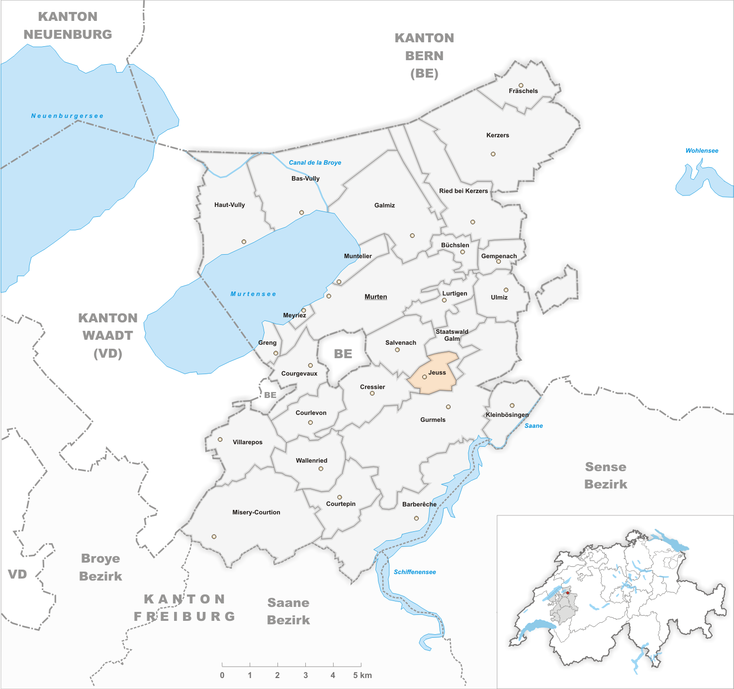 Municipality Jeuss